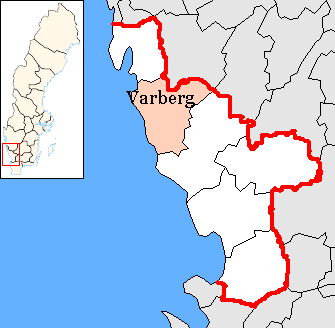 Varberg Municipality in Halland County Designd by me, based on Image:Halland County.png